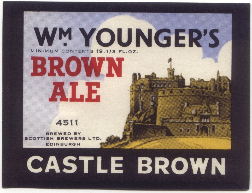 Wm Younger's Castle Brown label